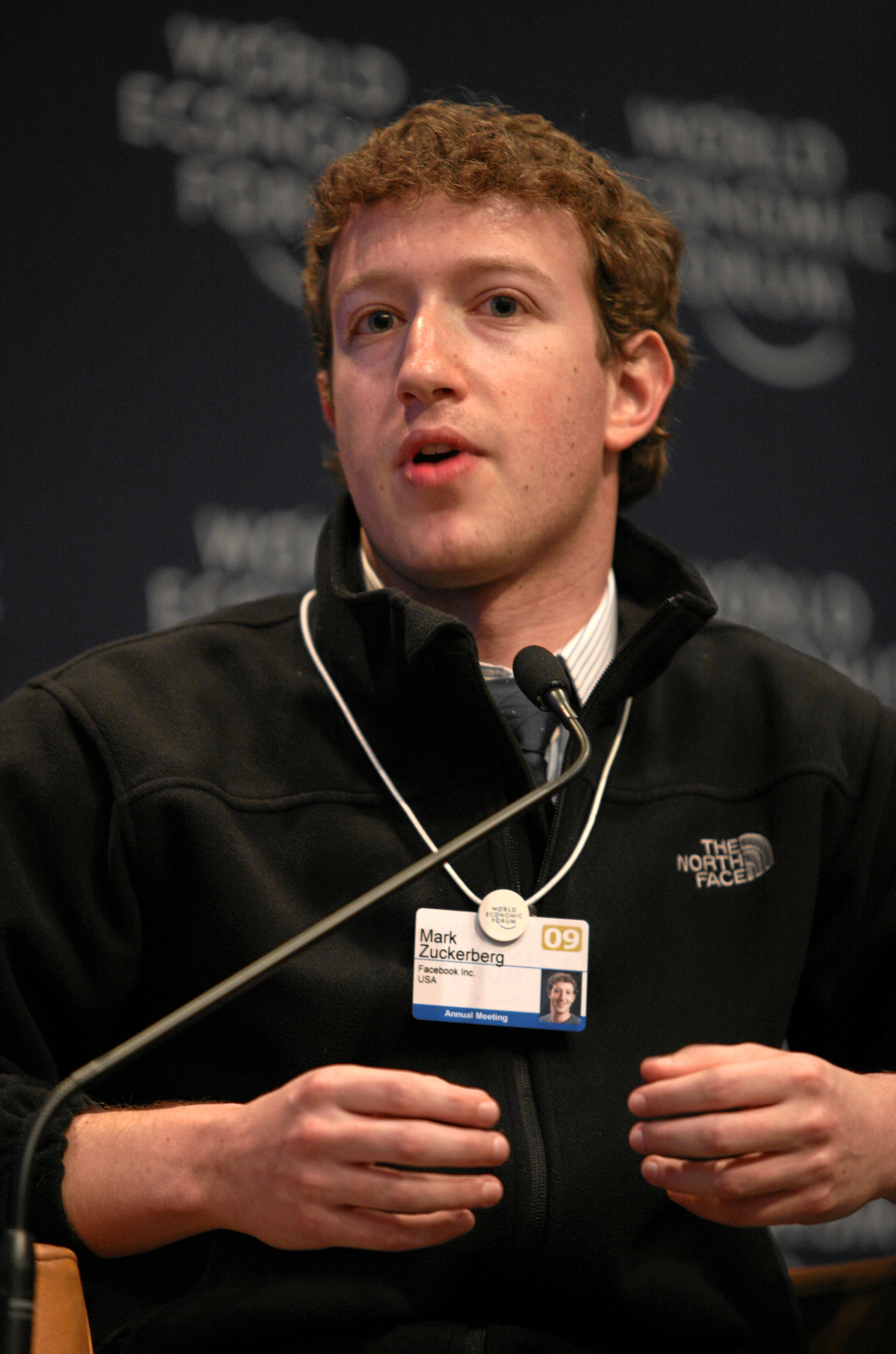 DAVOS-KLOSTERS/SWITZERLAND, 30JAN09 - Mark Zuckerberg, Founder and Chief Executive Officer, Facebook, USA, captured during the session 'The Next Digital Experience' at the Annual Meeting 2009 of the World Economic Forum in Davos, Switzerland, January 30, 2009